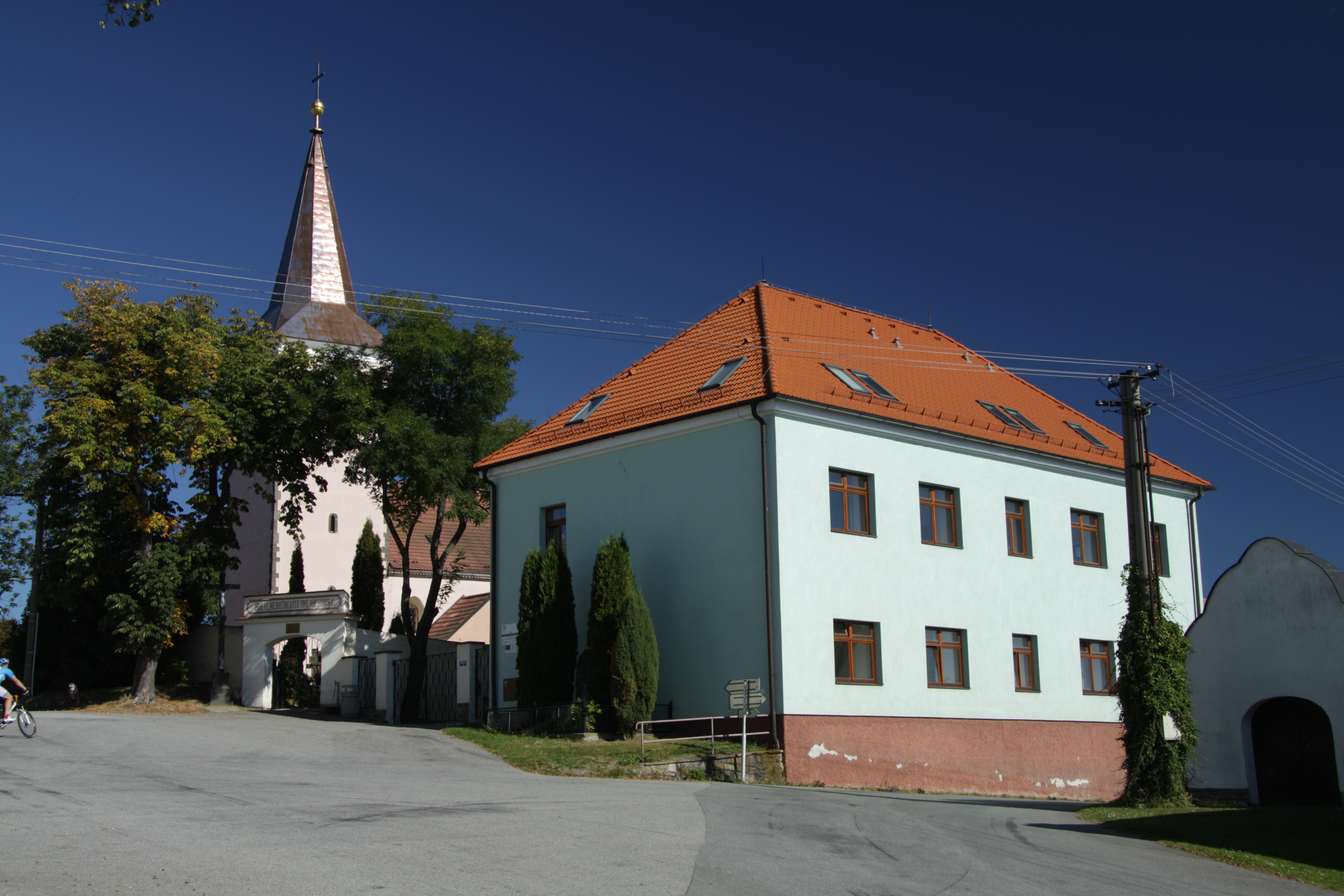 Lažiště village in Prachatice District in the Czech Republic - Google Maps - Google Earth